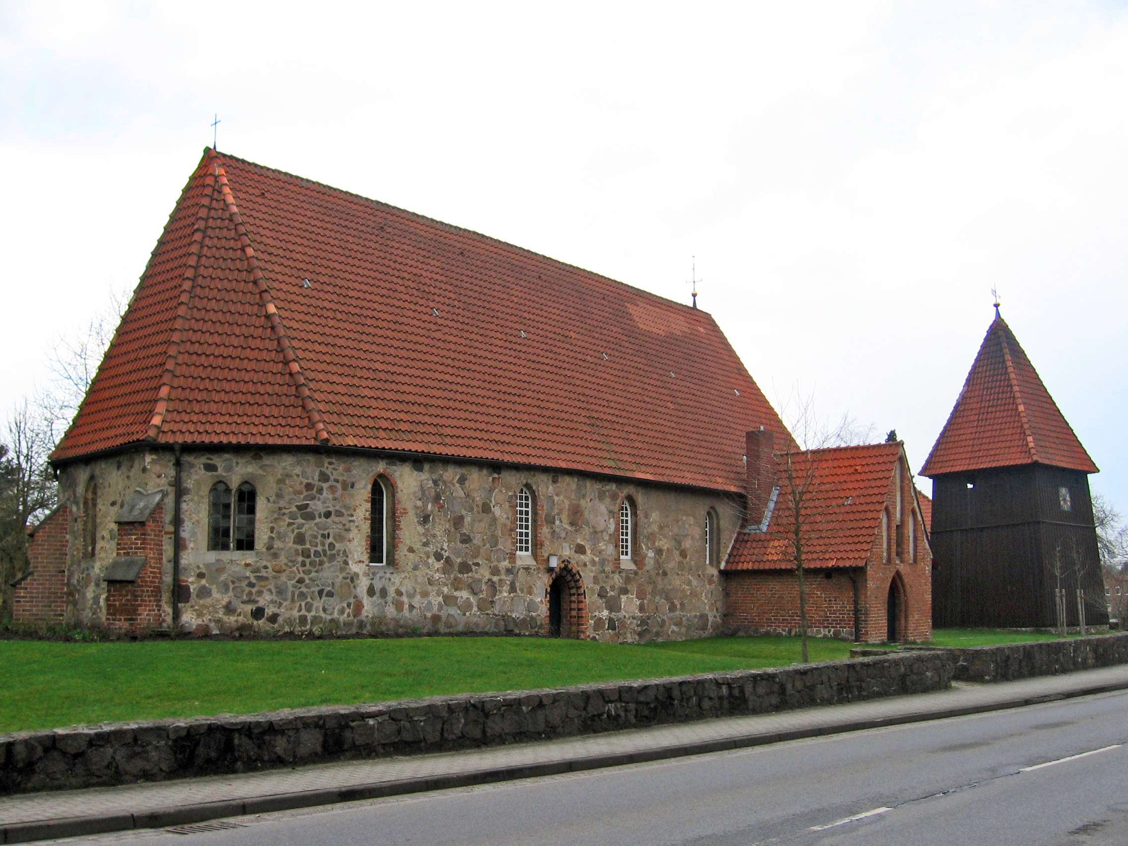 Lutheran St. Mary's Church of the German village Eldingen, Lower Saxony.